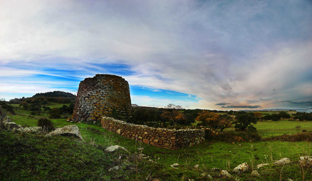 Nuraghe Ruju Nuraghe near Chiaramonti along the state road to Sassari. Made from 20 fz8 pics with hugin, light/color correction with photoshop.